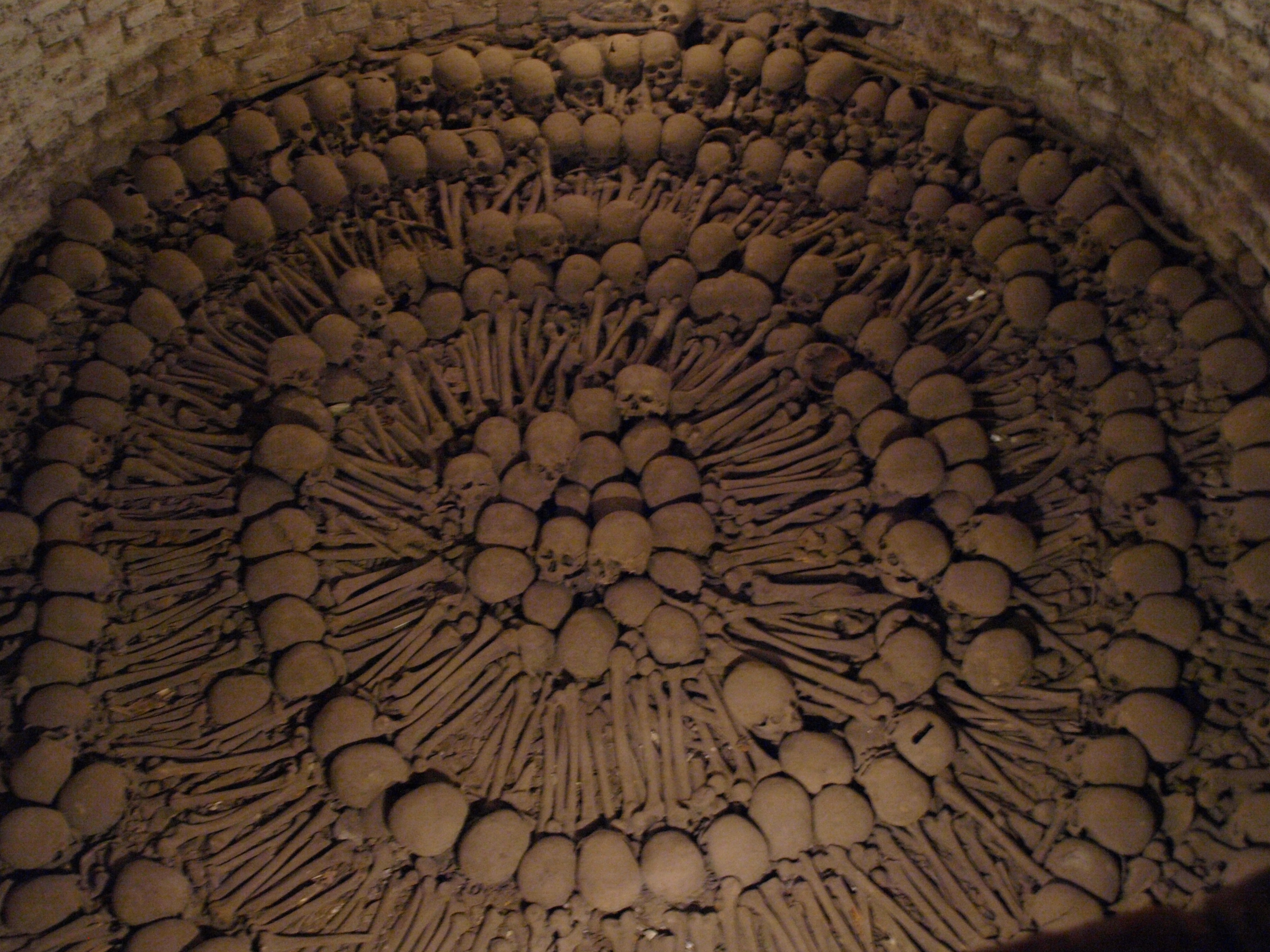 Lima's San Francisco church and monastery is one of the best examples of baroque architecture and art and is also home to exquisite displays of Spanish and Moorish tilework and panelling. The eerie catacombs are a must see, home to the remains of thousands of former Limeños. You can use this image on your blog or website, but please link and attribute: Views of Lima © Matthew Barker, Peru For Less 2009